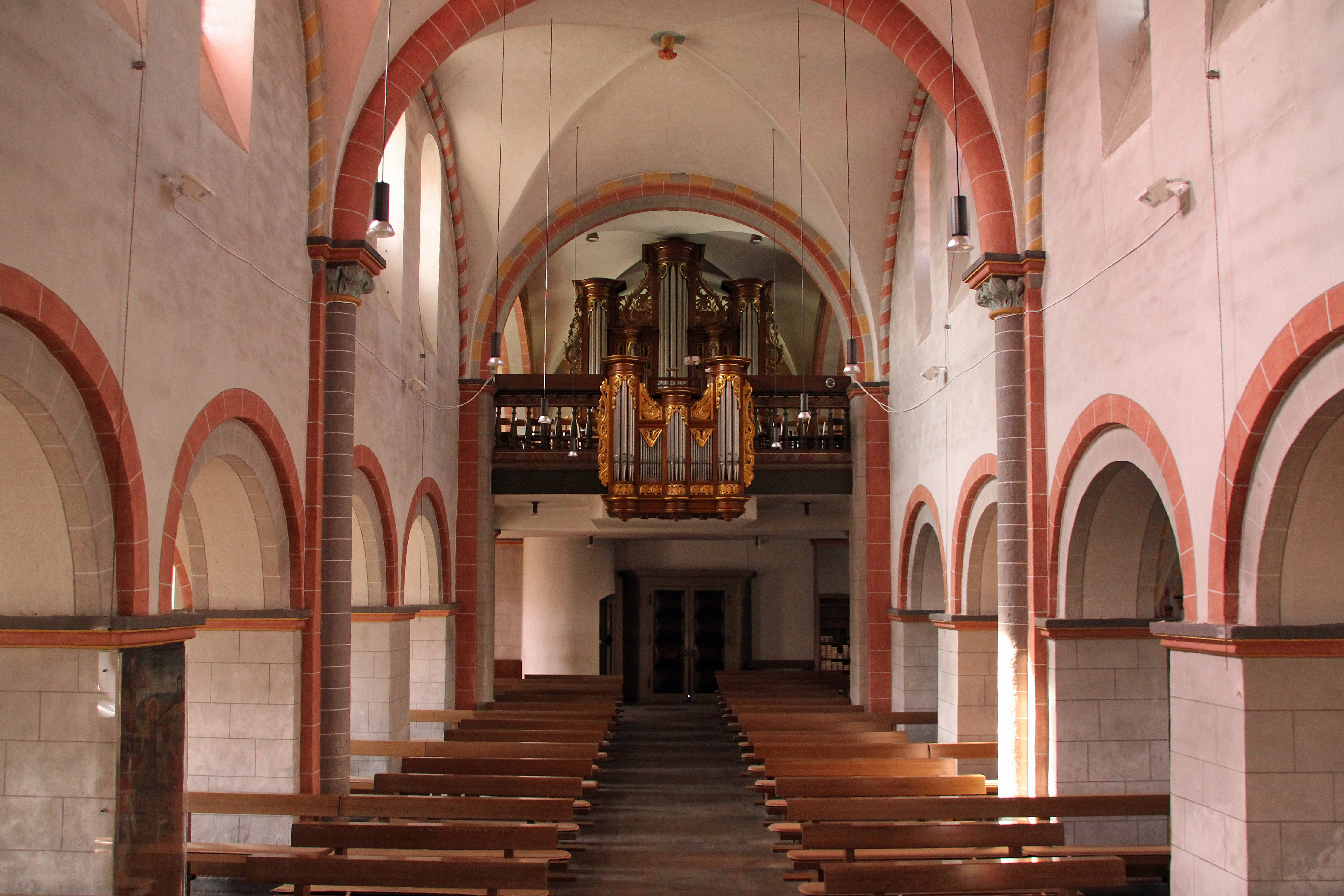 St. Laurentius church in Koblenz